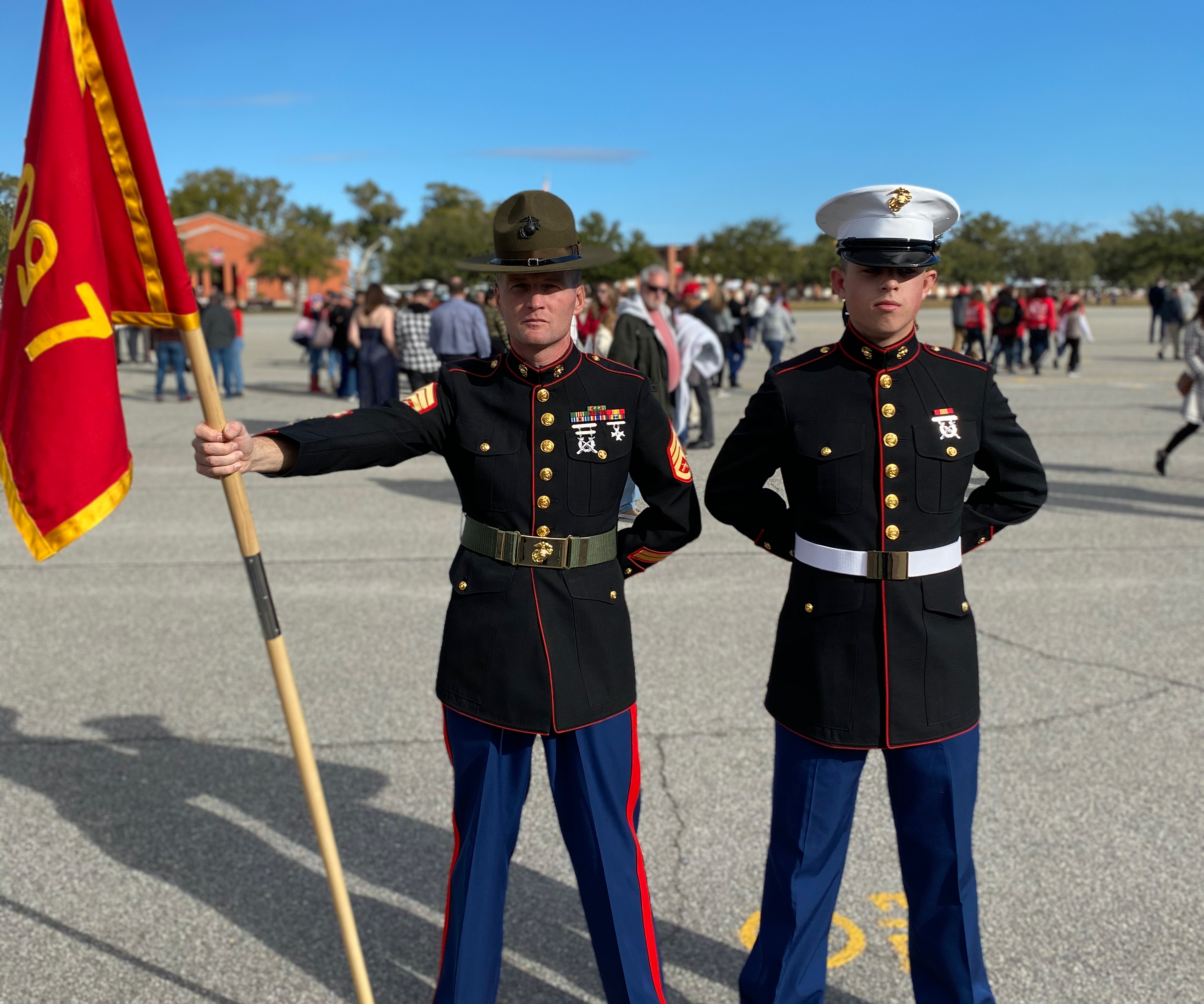 A new Marine stands with his Drill Instructor on graduation day at Parris Island. Charlie Company, Platoon 1097, December 6th, 2019.